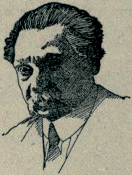 מ. ווינטשעווסקי. From: ייִדיש: אמנטאָלאָגיע פינף הונדערט יאָהר אידישע פּאָעזיע